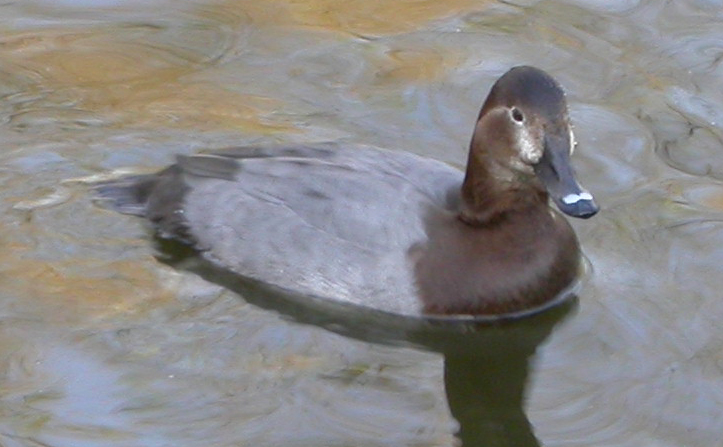 Female Aythya ferina, Beijing Zoo